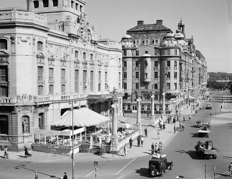 The Royal Dramatic theater in Stockholm, Sweden.